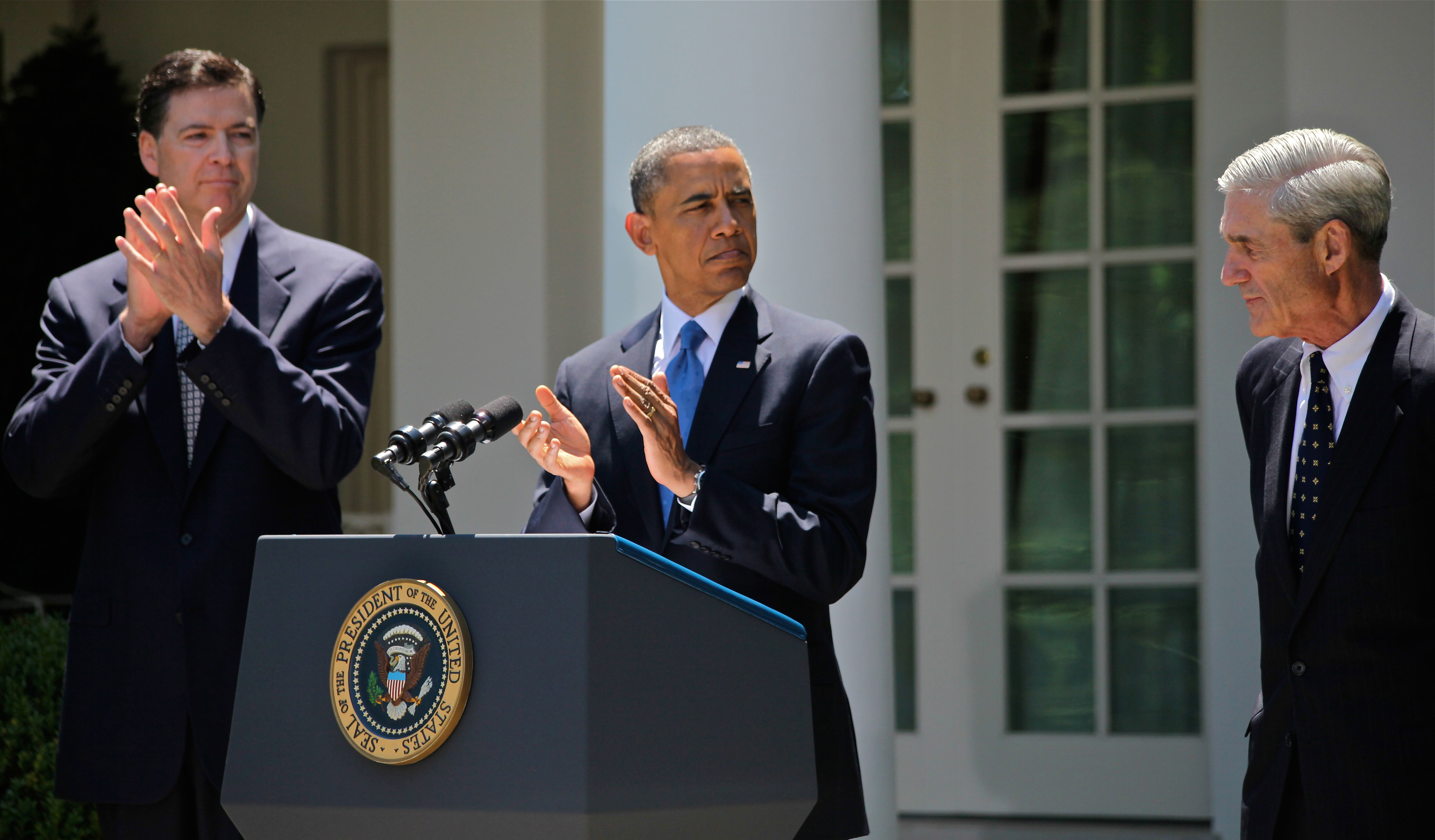 Former Deputy Attorney General James Comey (left), alongside President Barack Obama (center) and outgoing FBI Director Robert Mueller (right) at Comey's nomination to become the Seventh Director of the FBI.